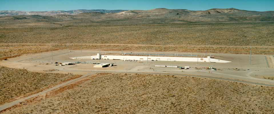 Nevada Test Site, Area 6. View of the Device Assembly Facility.